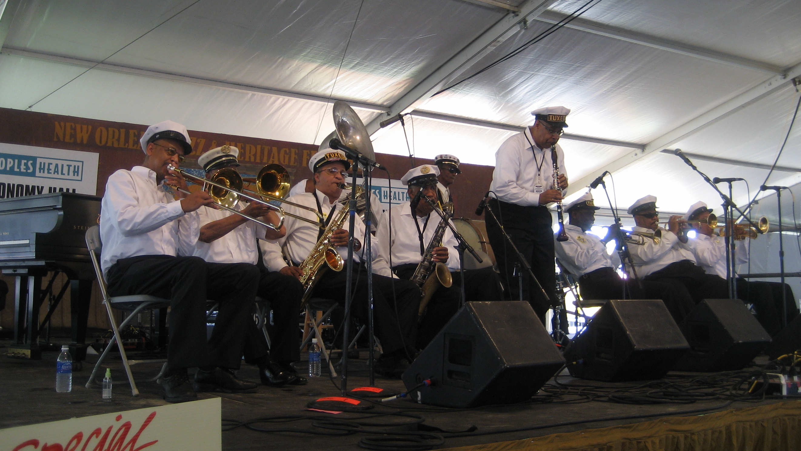 Young Tuxedo Brass Band playing at Economy Hall Stage, New Orleans Jazz & Heritage Festival 2009